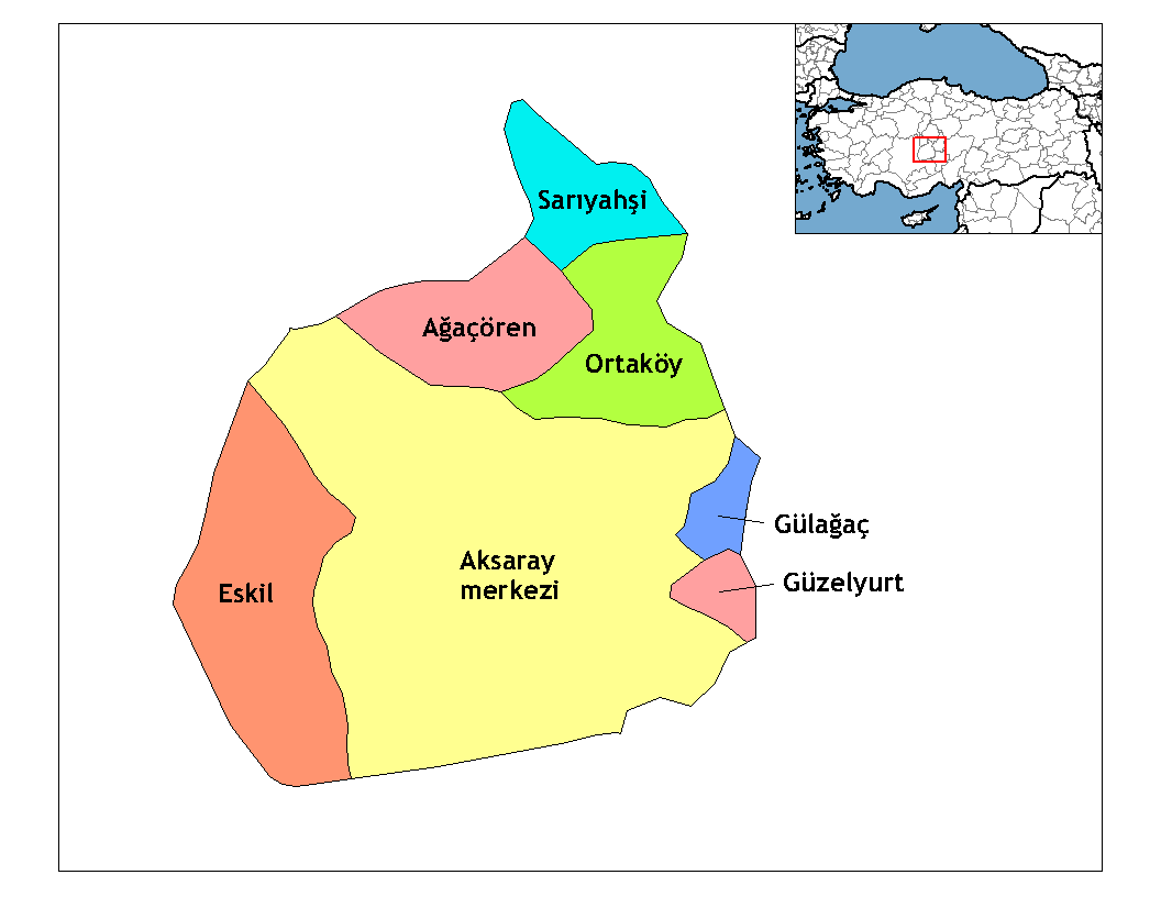 Map of the districts of Aksaray province in Turkey. Created by Rarelibra 16:30, 1 December 2006 (UTC) for public domain use, using MapInfo Professional v8.5 and various mapping resources. Edited by One Homo Sapiens Corrected text where İ,Ş,ı,ğ,or ş occurs in name. Source: [statoids-com]. Increased font size and enhanced color differences among adjacent districts.